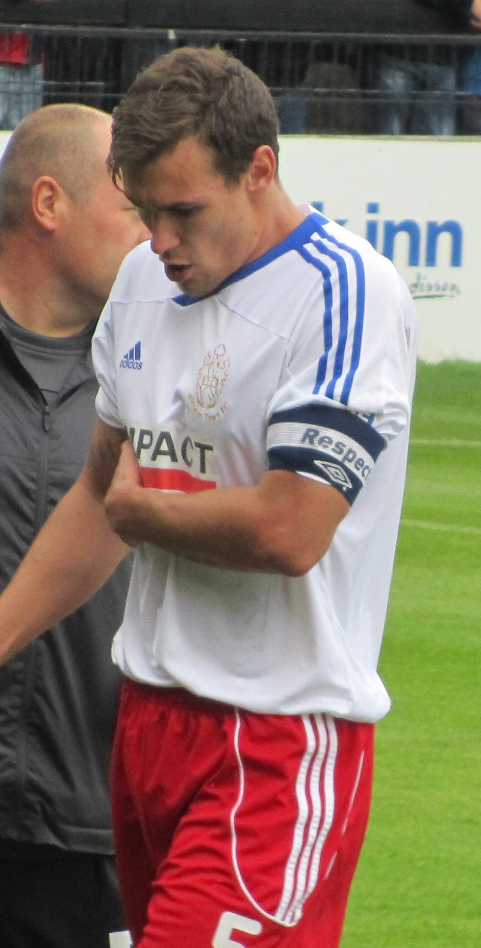 Greg Young playing for Alfreton Town against York City at Bootham Crescent, York on 29 August 2011